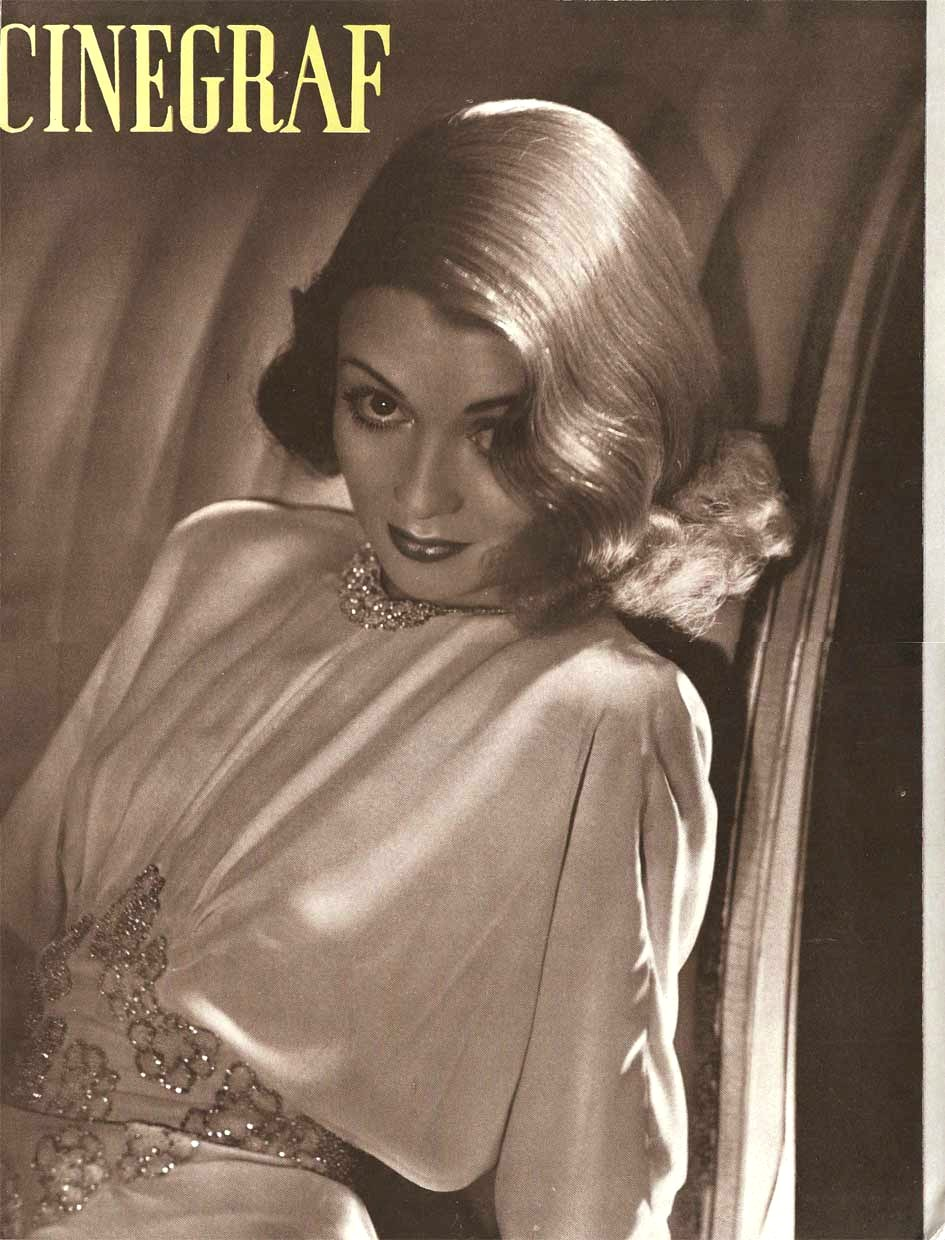 Constance Bennett on the Argentinean Magazine cover.